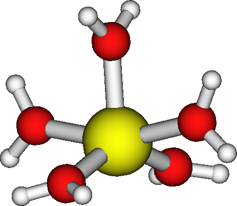 Coordination of copper(II) in liquid water